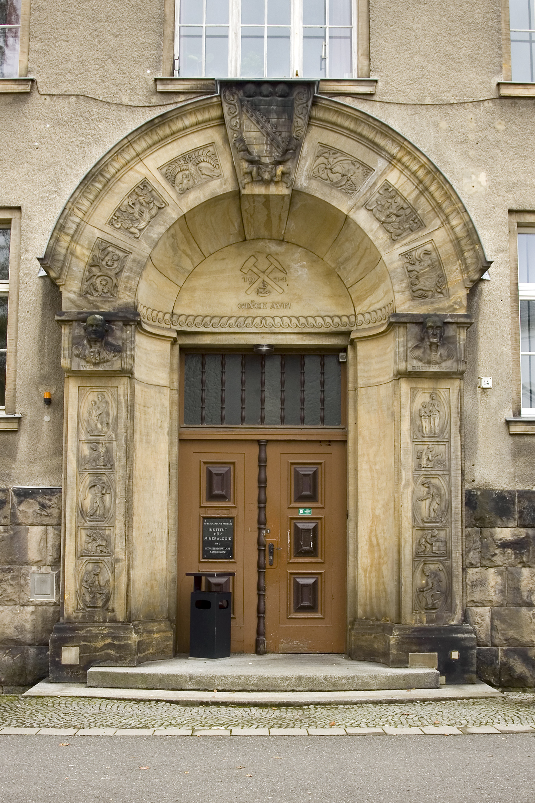 Freiberg, Brennhausgasse 14 (Mineralogical Institute, “Werner-Bau”), portal